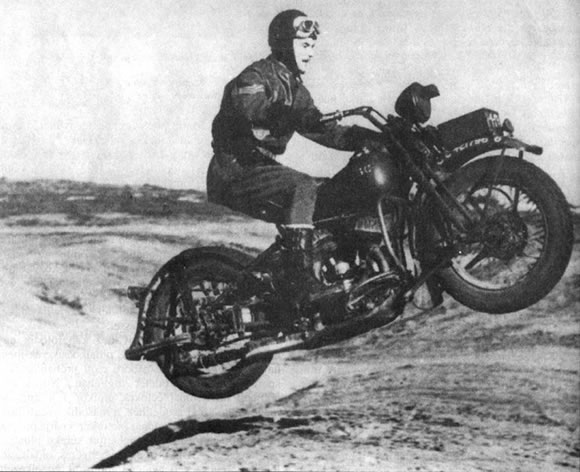 Military motorcycle on excursion.